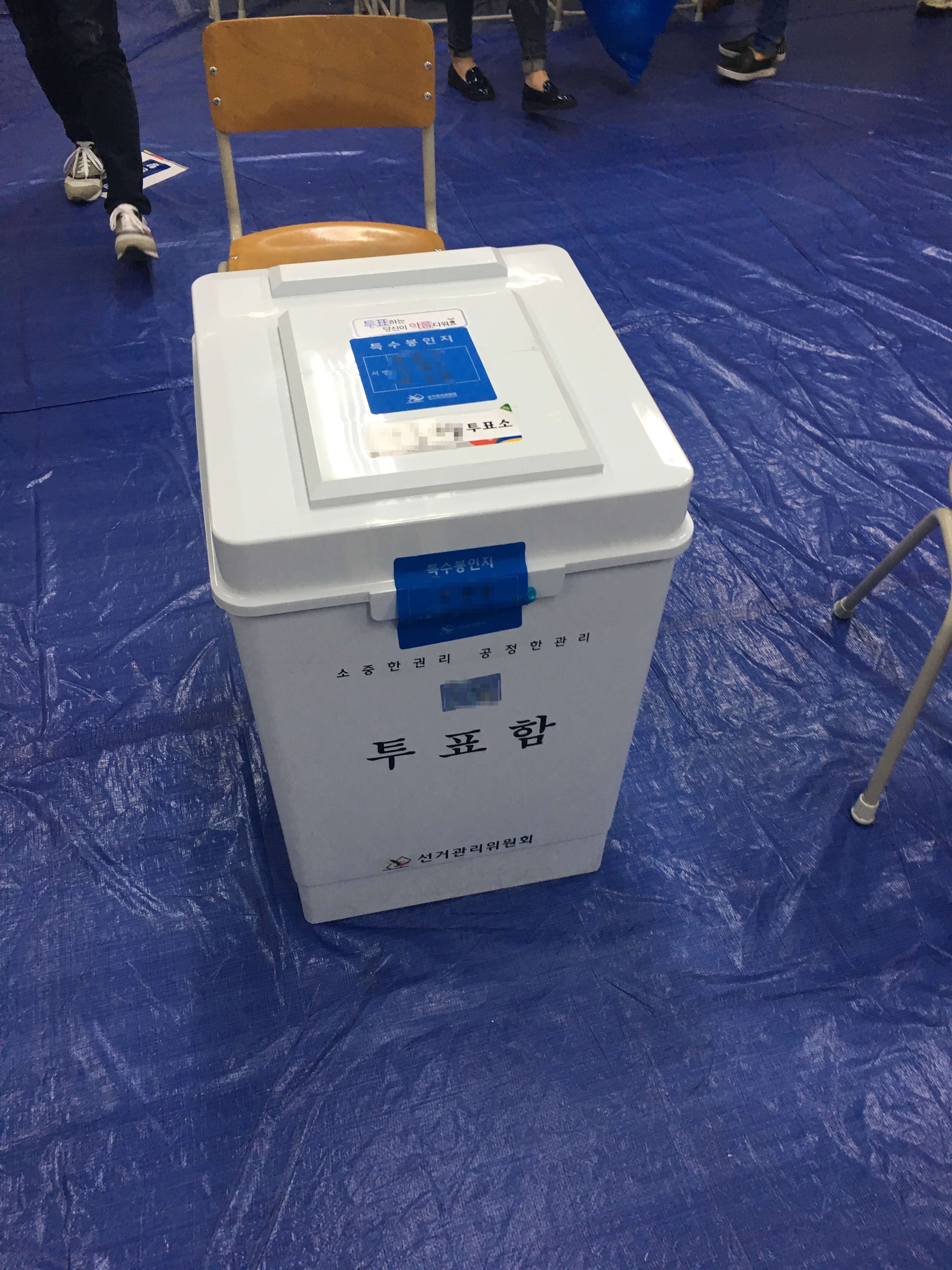 Ballot box for Korean National Assembly Election 2016.